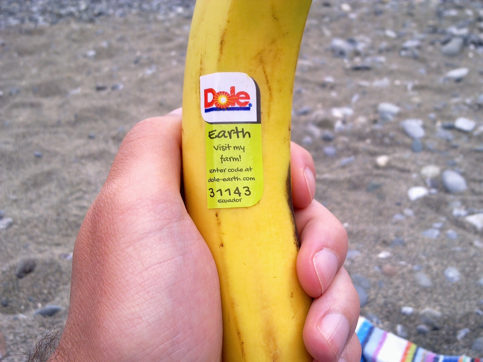 Dole Food Company fruit label sticker on a banana.